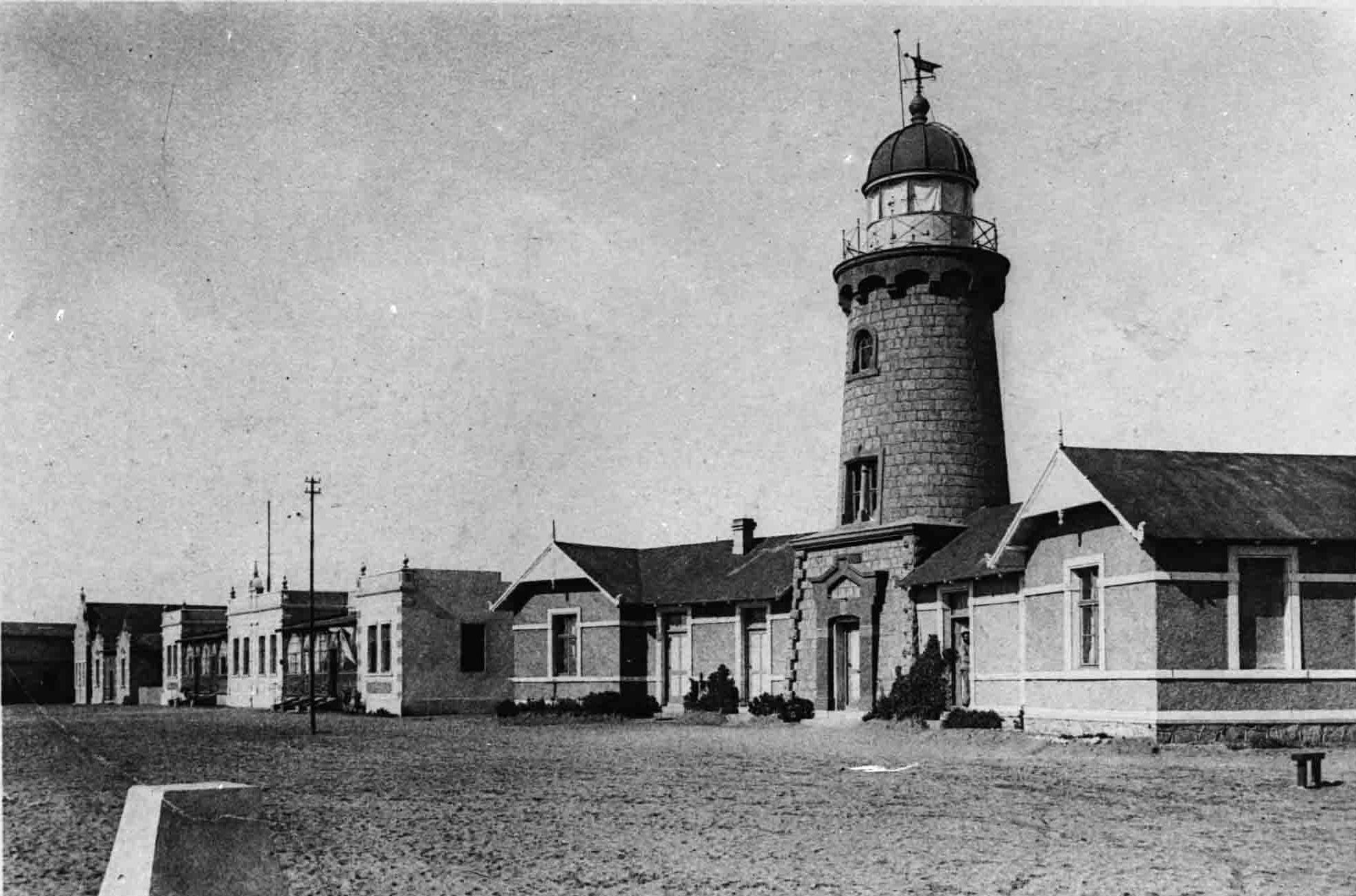 First Lighthouse in Swakopmund, Namibia; built in 1902 (height 11m)